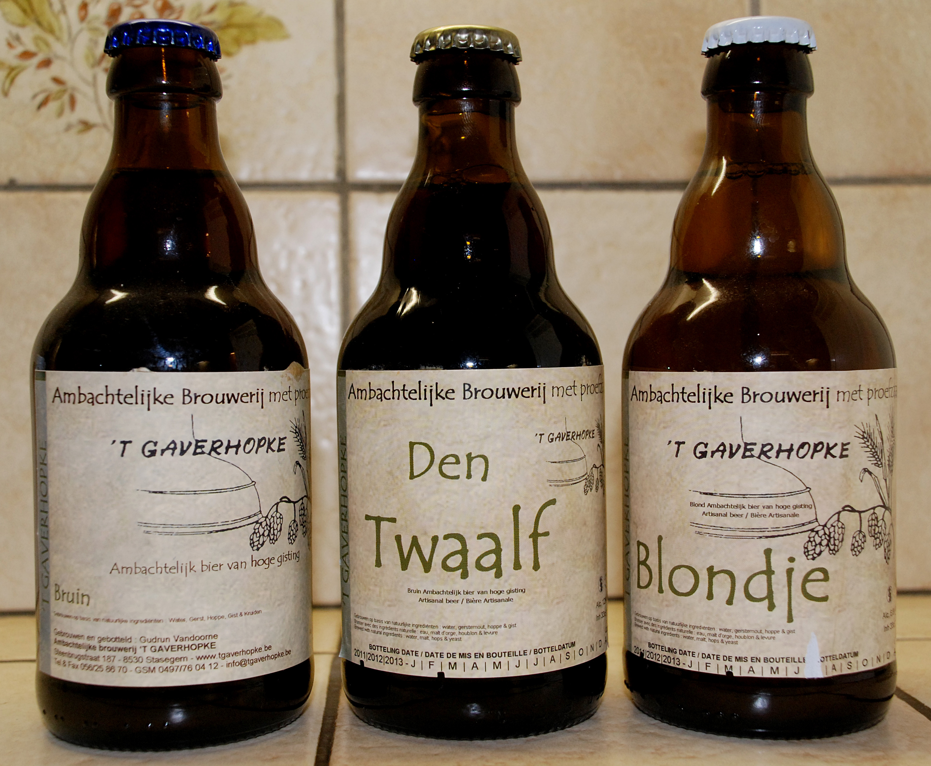 Brewery Gaverhopke, Belgian beers